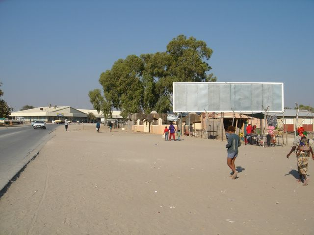 Rundu, Namibia